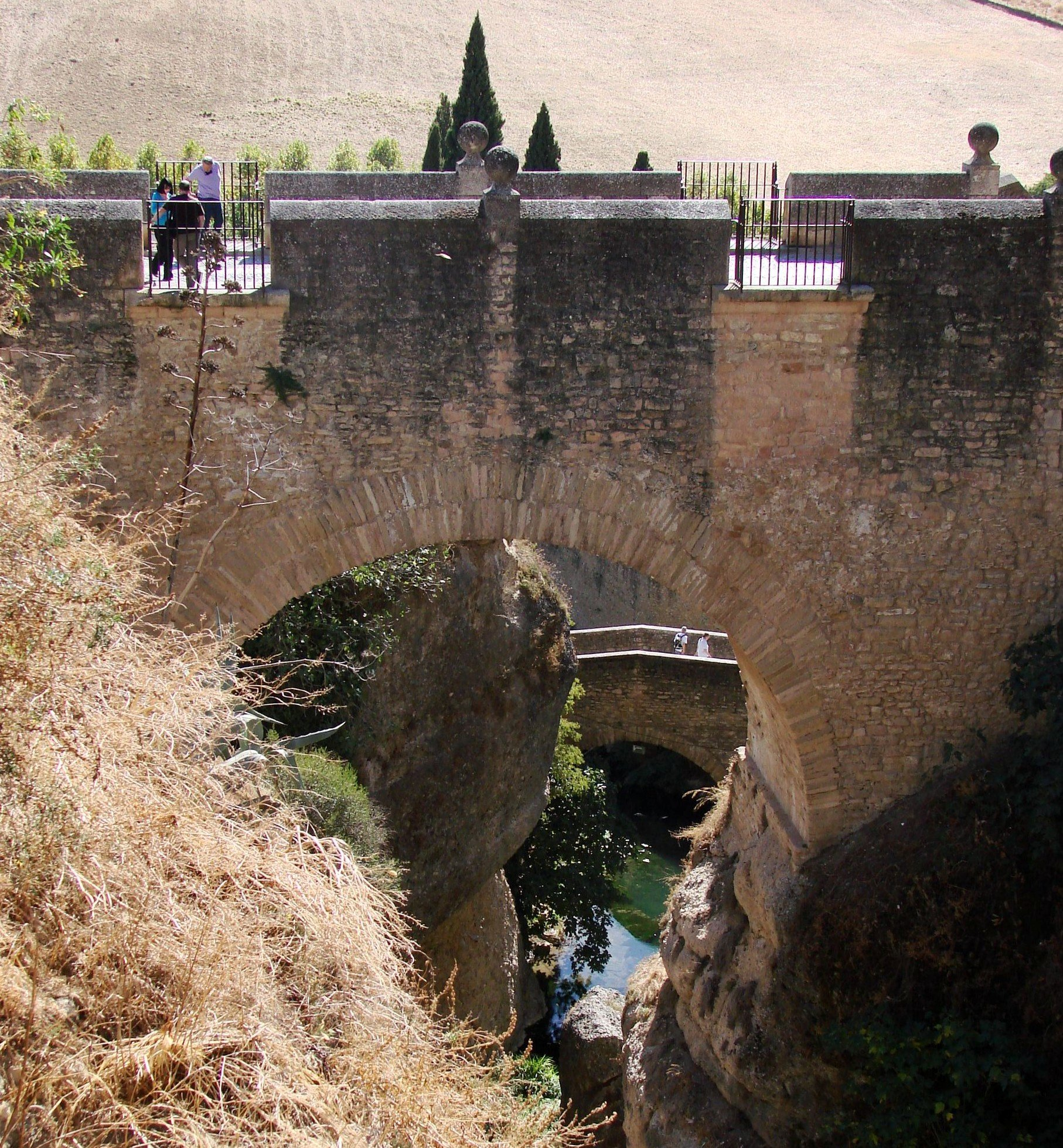 Old Bridge (Puente Viejo) with Arab (or Roman) Bridge below, Ronda, Spain